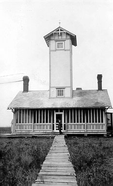 Tybee Cut Front Range Light (Chatham County, Georgia) This image or file is a work of a United States Coast Guard service personnel or employee, taken or made as part of that person's official duties. As a work of the U.S. federal government, the image or file is in the public domain (17 U.S.C. § 101 and § 105, USCG main privacy policy and specific privacy policy for its imagery server).